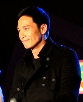 Moses Chan